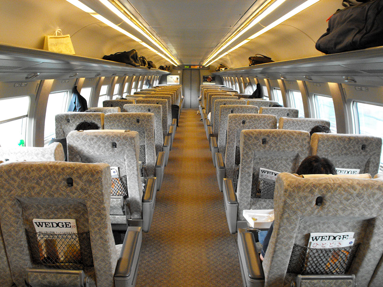 Shinkansen 500-series first-class interior